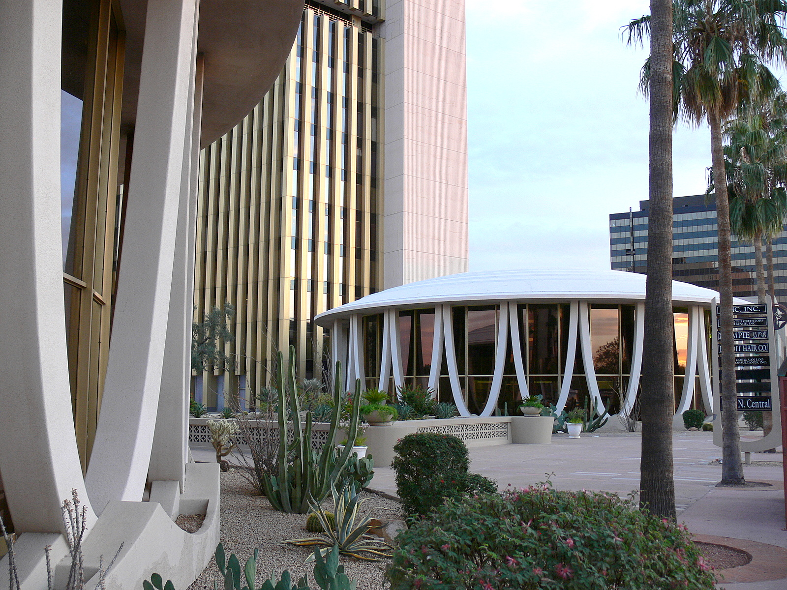 The image was personally taken by me in November 2006. Wars 17:07, 24 November 2006 (UTC)